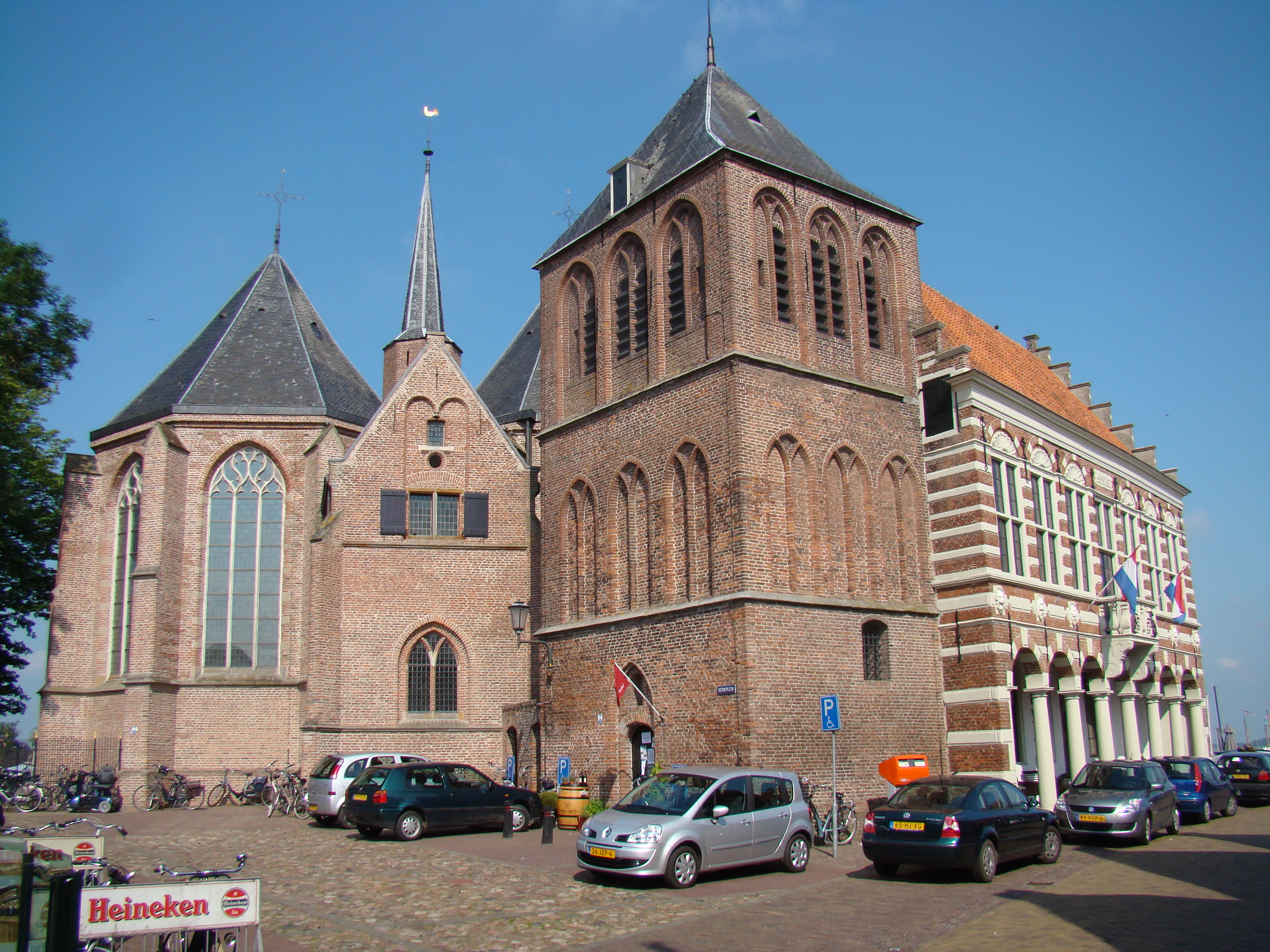 Impressions of Vollenhove